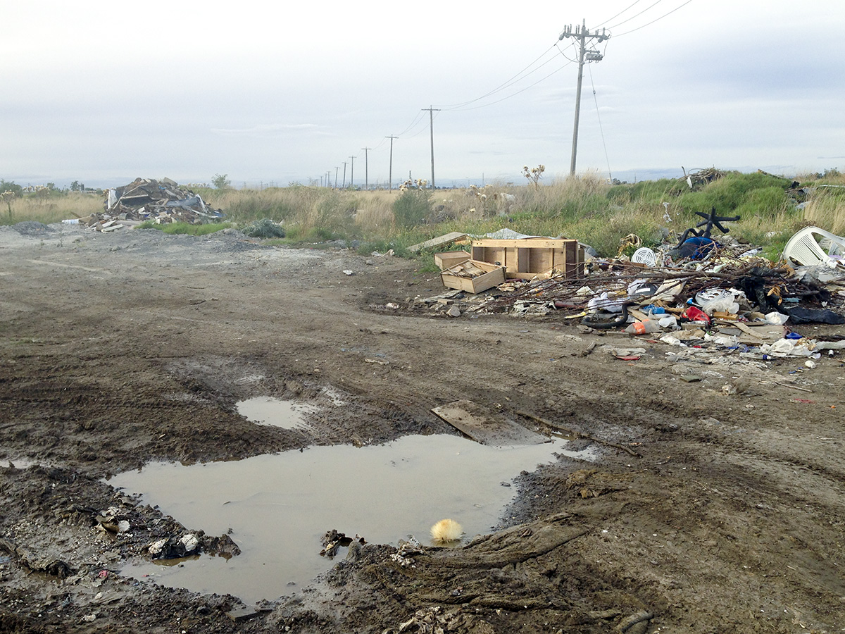 Illegal rubbish dumping, Solomon Heights, VIC.jpg.jpg